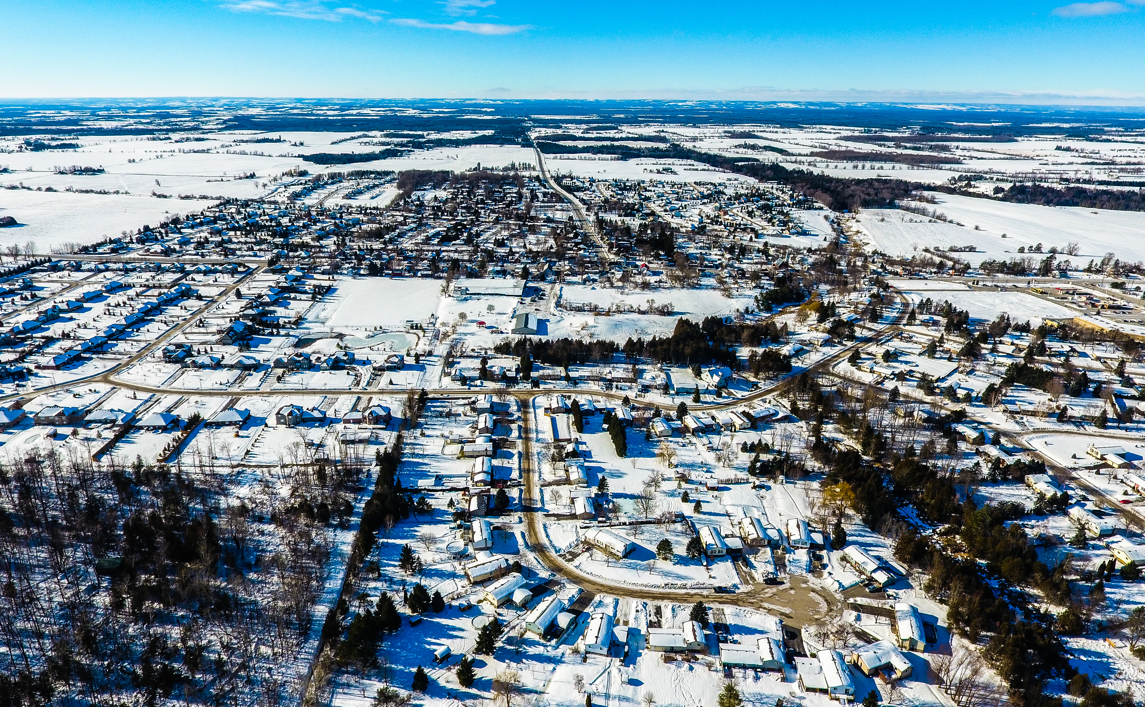 Drone photo of Thornton ON Jan 6 2017